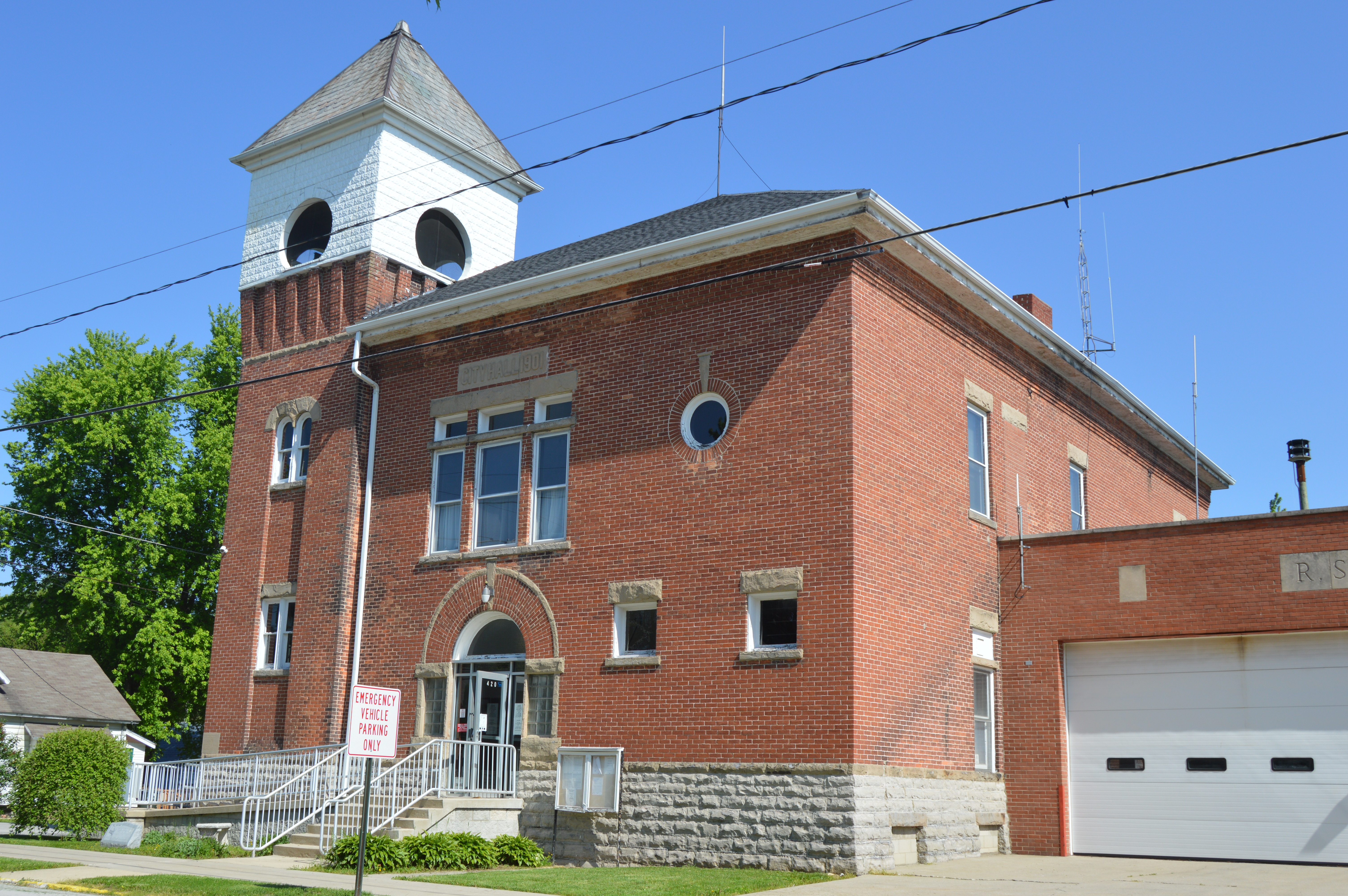 Front and eastern side of the Risingsun village hall, located at 420 Main Street in Risingsun, Ohio, United States.